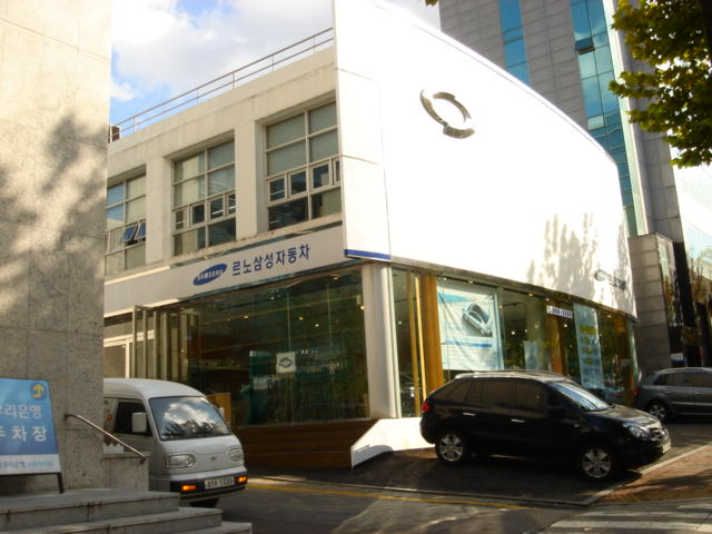 RENAULT SAMSUNG MOTORS